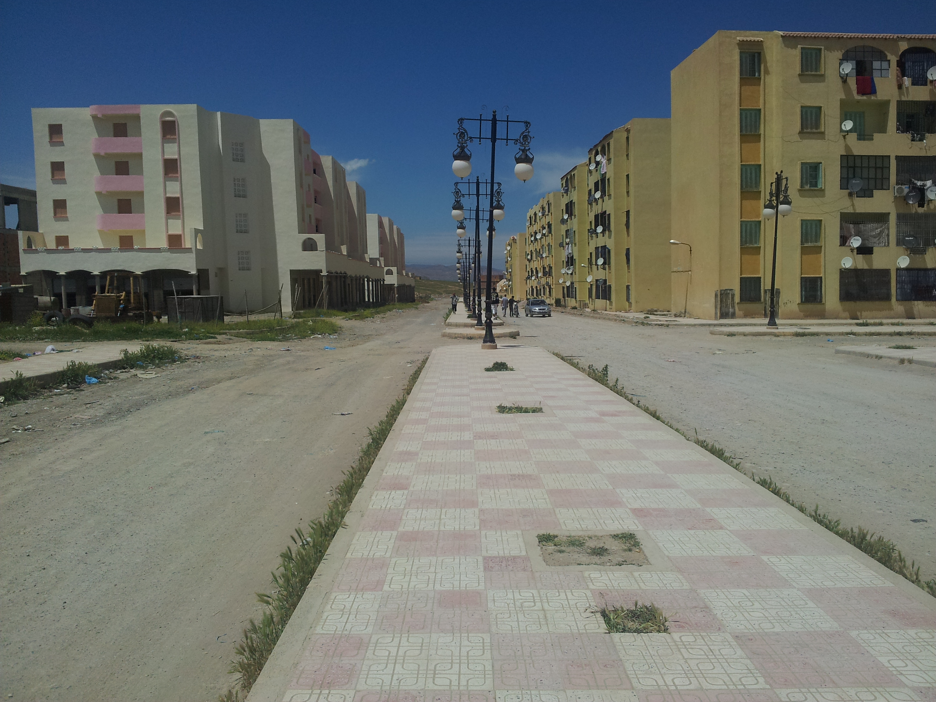 merouana picture in algeria